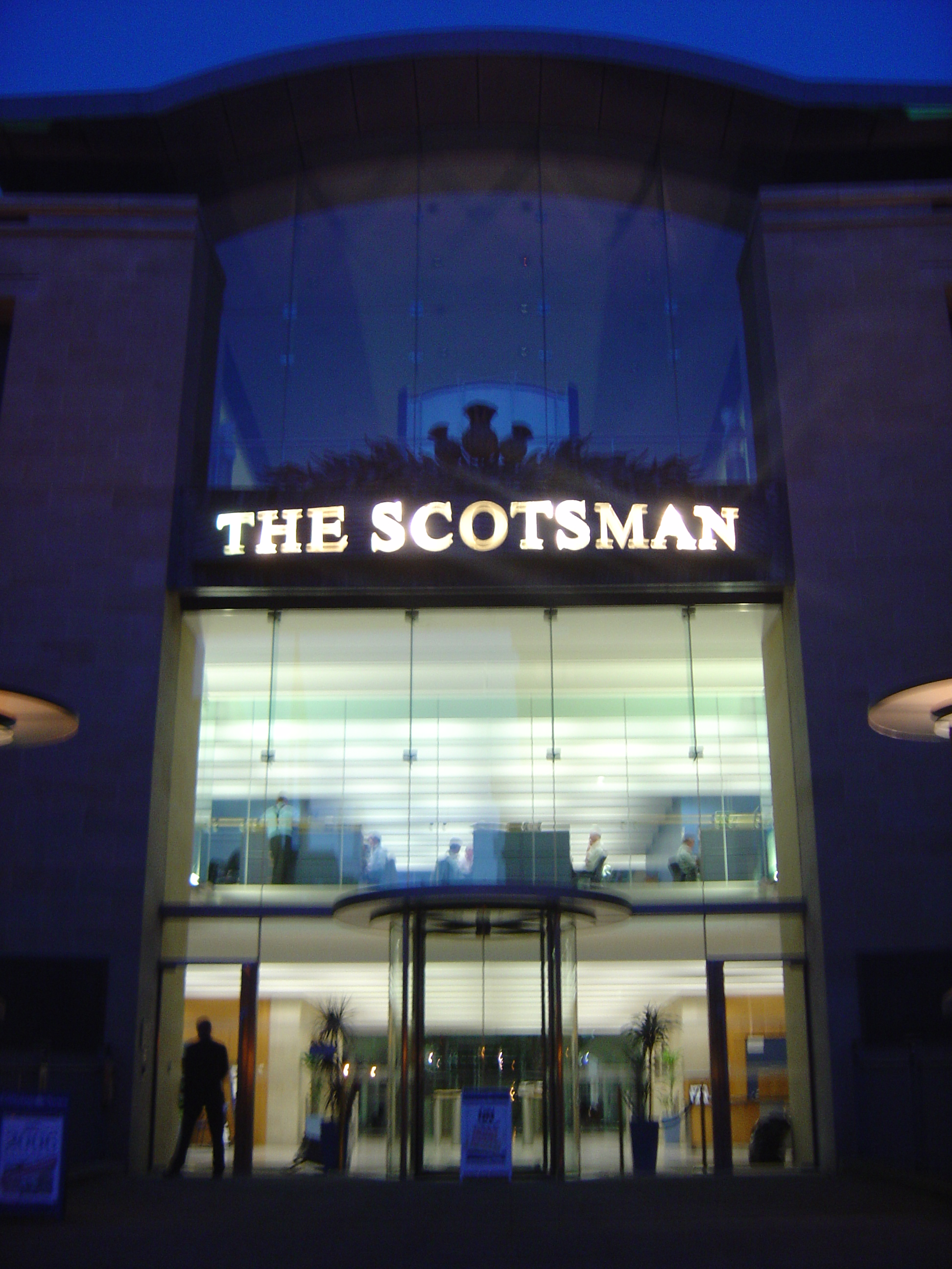 The Scotsman offices, Edinburgh